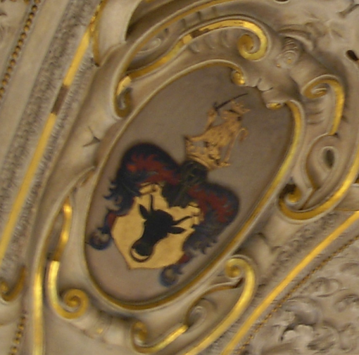 Wieniawa coat of arms in Baranow-Sandomierski castle. Detail of Image:Baranów Sandomierski - castle 16.JPG full resolution, by User:Piotrus and tagged with the same “self2.GFDL.cc-by-sa-2.5,2.0,1.0” license.